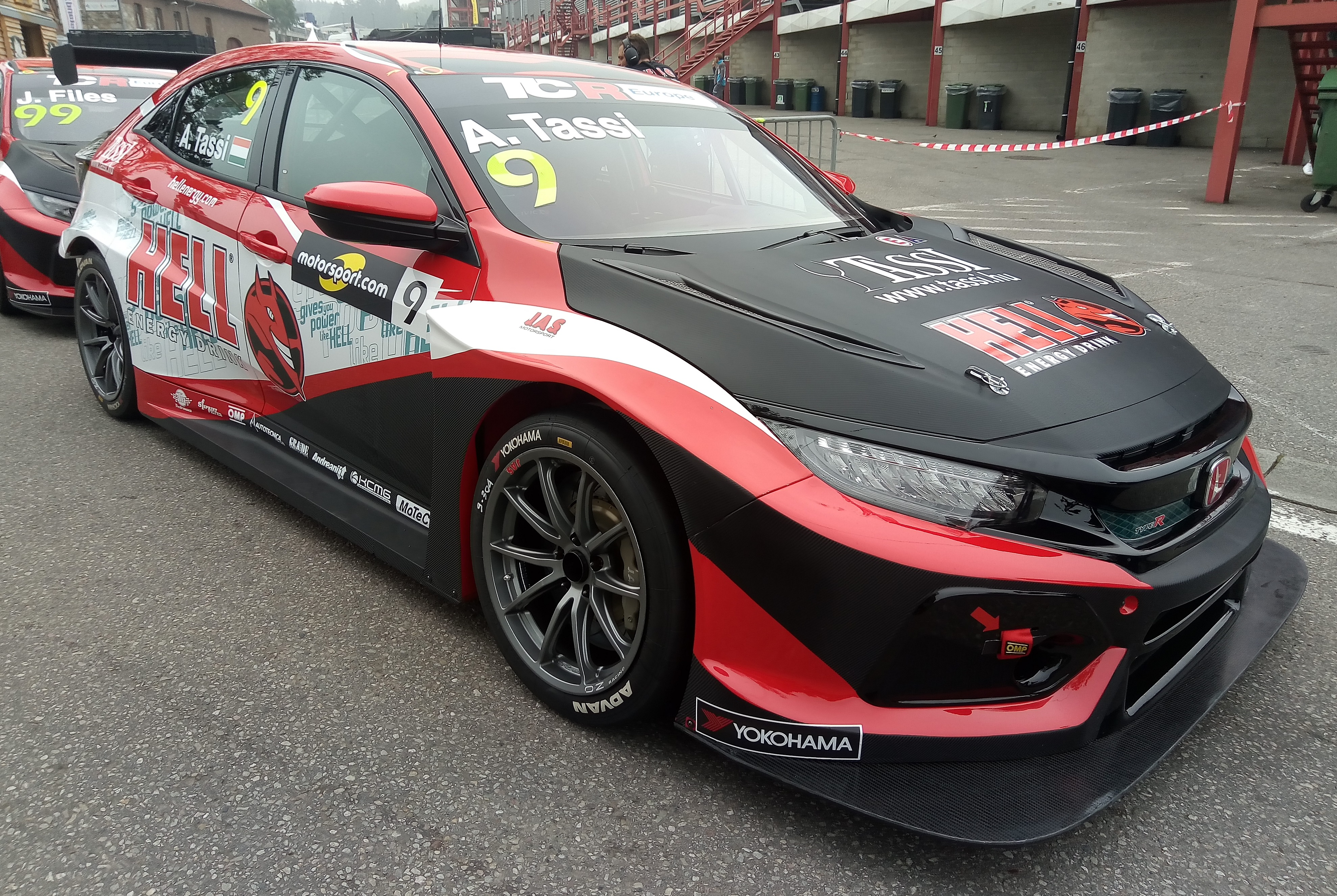 Attila Tassi (Hell Energy Racing with KCMG) at the 2018 TCR Europe Series round at Spa-Francorchamps.